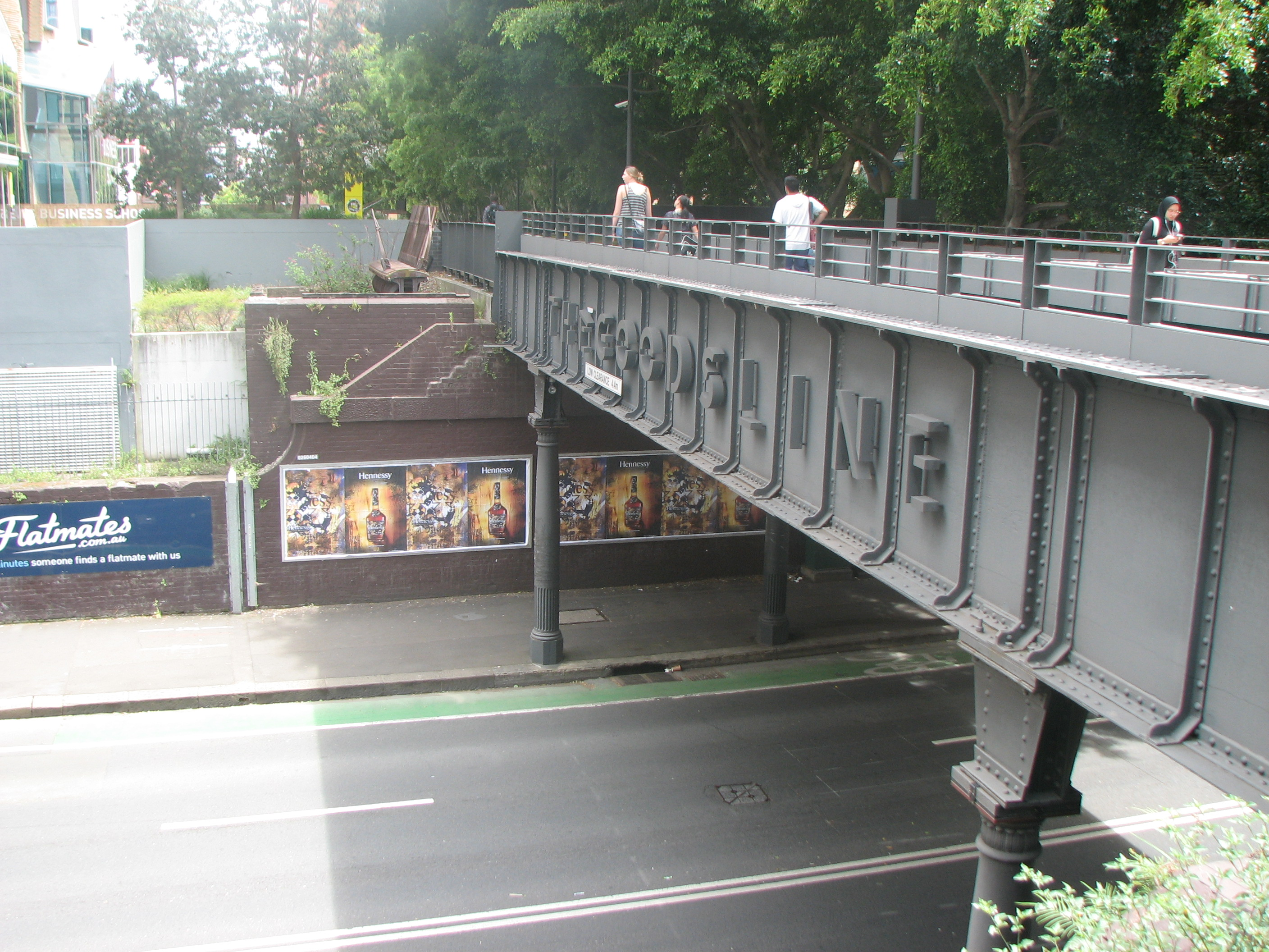 The Ultimo Road underbridge is now part of "The Goods Line" a walkway from Central station to Darling Harbour